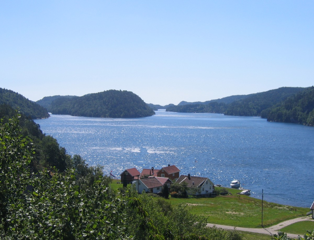 Trysfjorde i Søgne,Vest-Agder, Norway